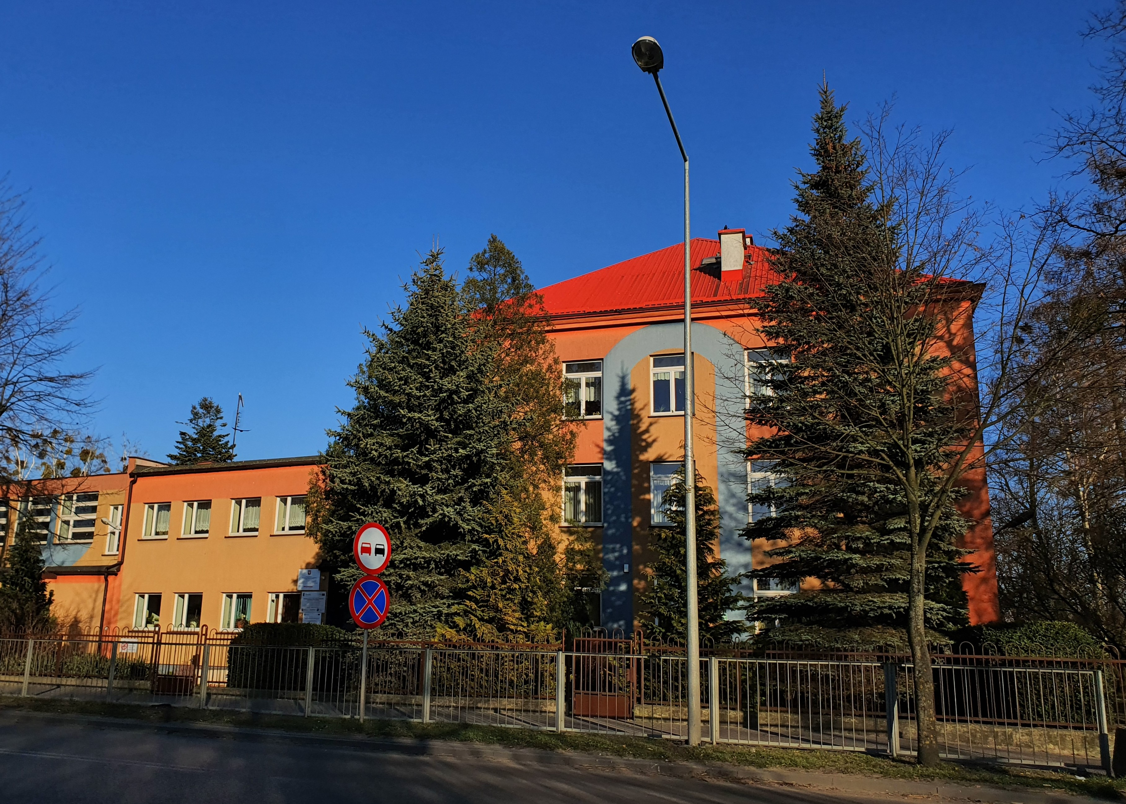 Obraz przedstawia szkołę ZSCKP ul. Marszałka Józefa Piłsudskiego 51 w Sochaczewie